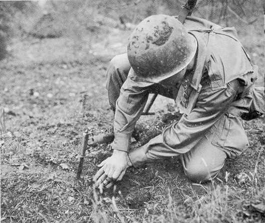 Members of 504th Parachute Infantry Regiment practising their mine-detecting skills.